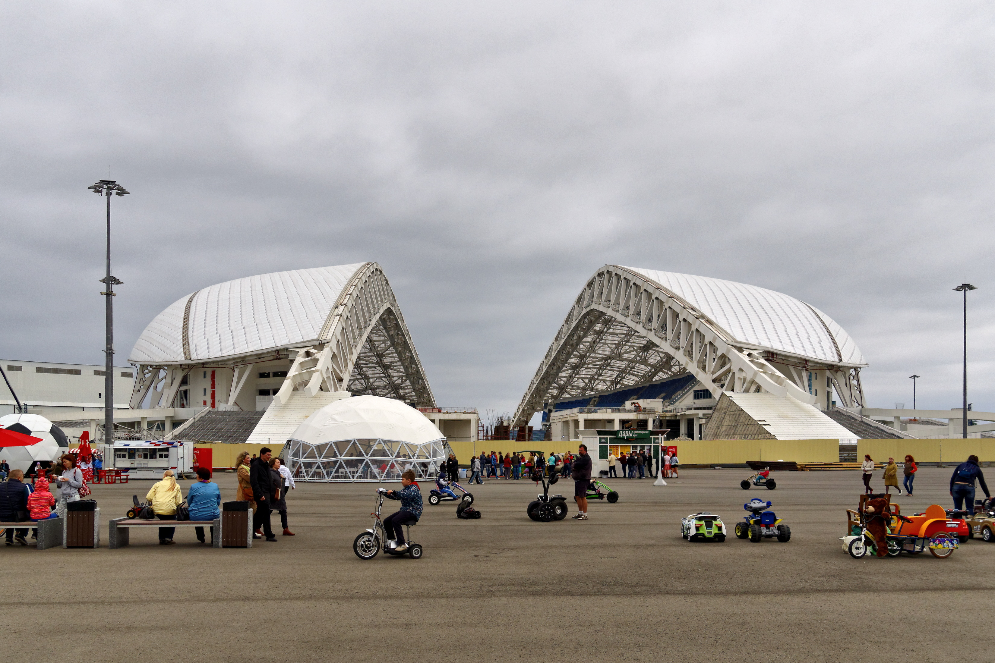 Fisht Olympic Stadium (undergoing renovations)